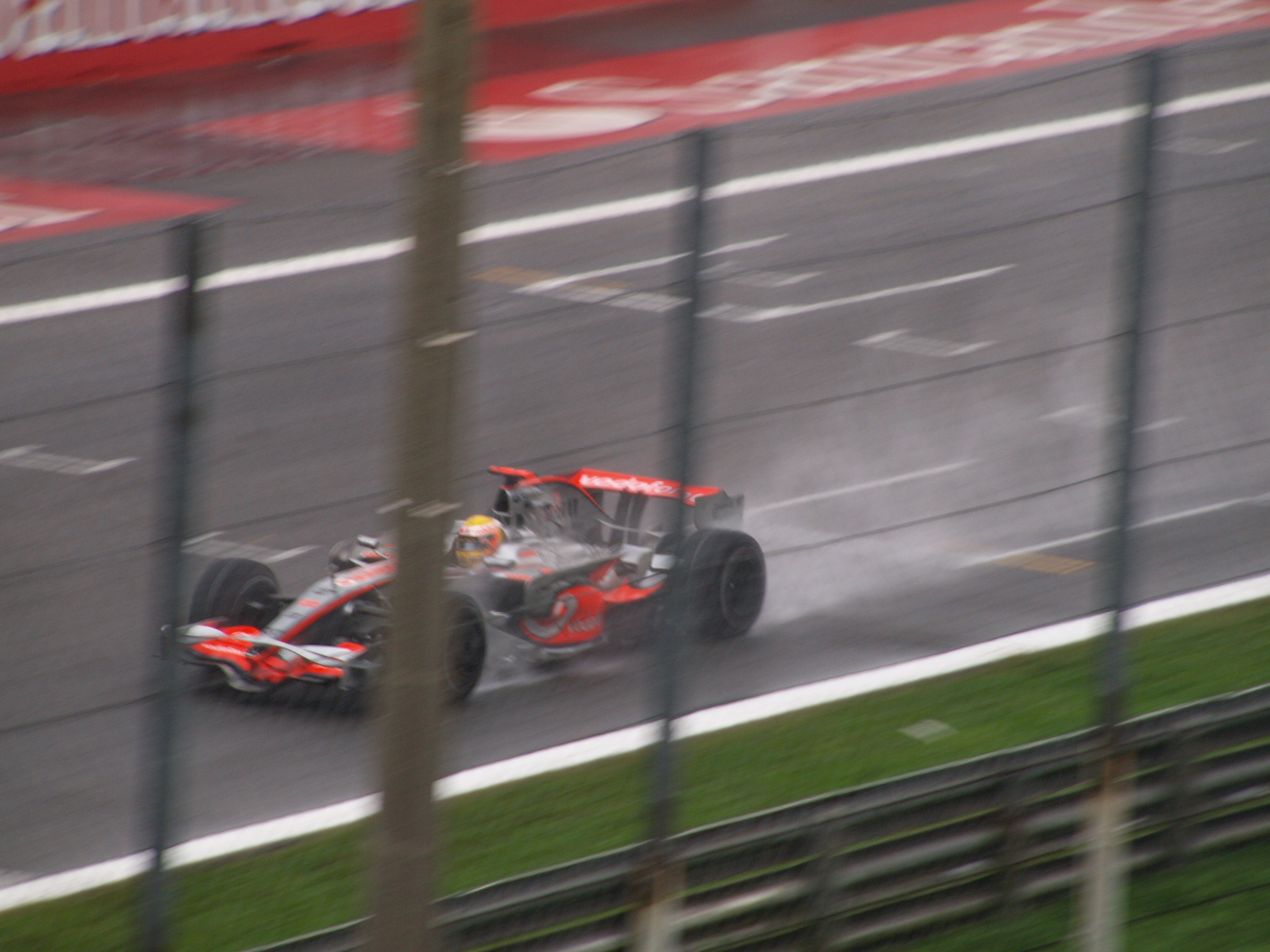 Lewis Hamilton, 2008 Italian Grand Prix, Monza